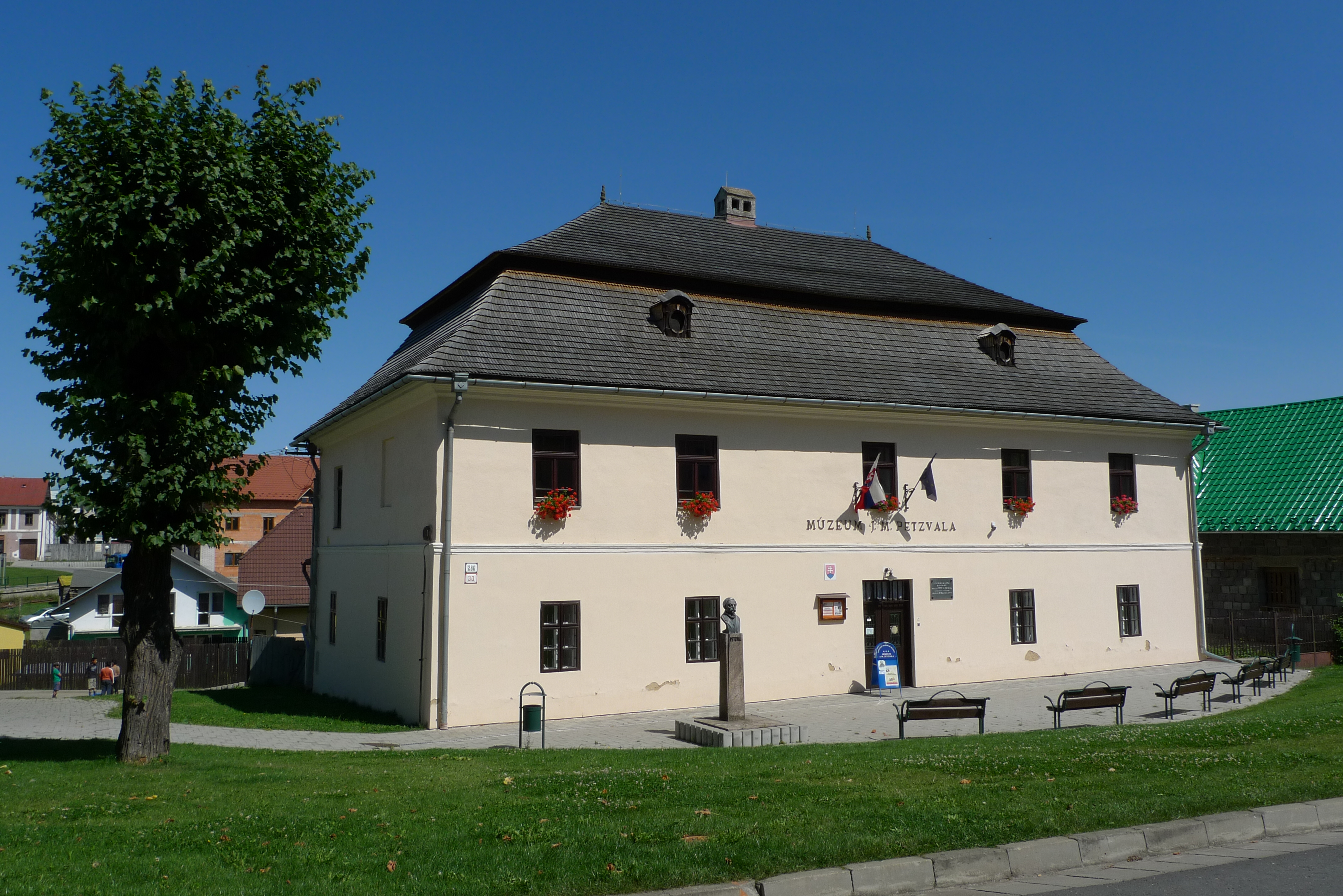 Museum of Photography and Jozef Maxmilián Petzval in Spišská Belá, Slovakia Česky: Muzeum fotografie a Jozefa Maxmiliána Petzvala ve Spišské Belé This medium shows the protected monument with the number 703-954/1 in the Slovak Republic.